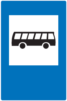 Diagram of road signs of Luxembourg